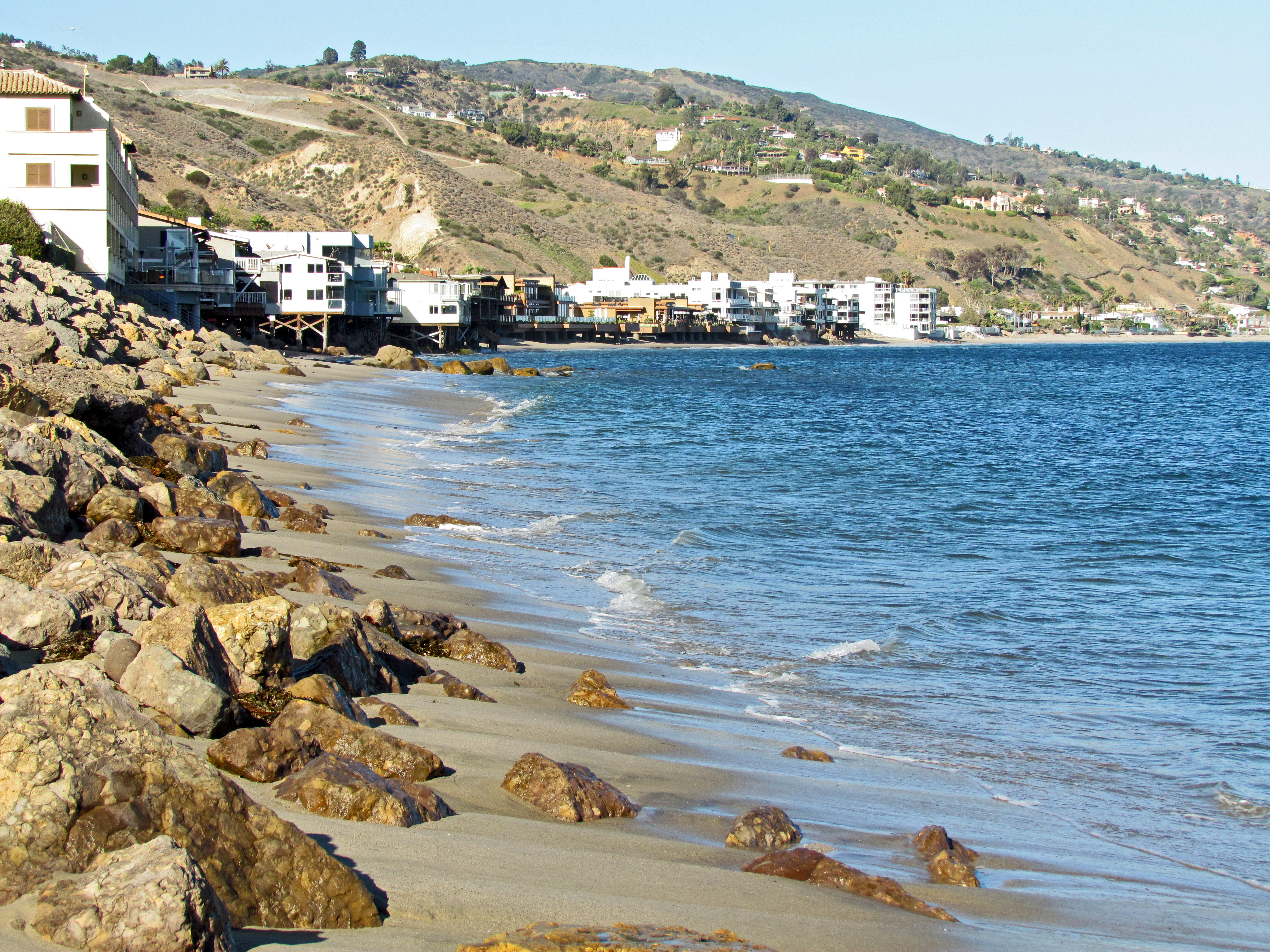 Malibu Beach, California.